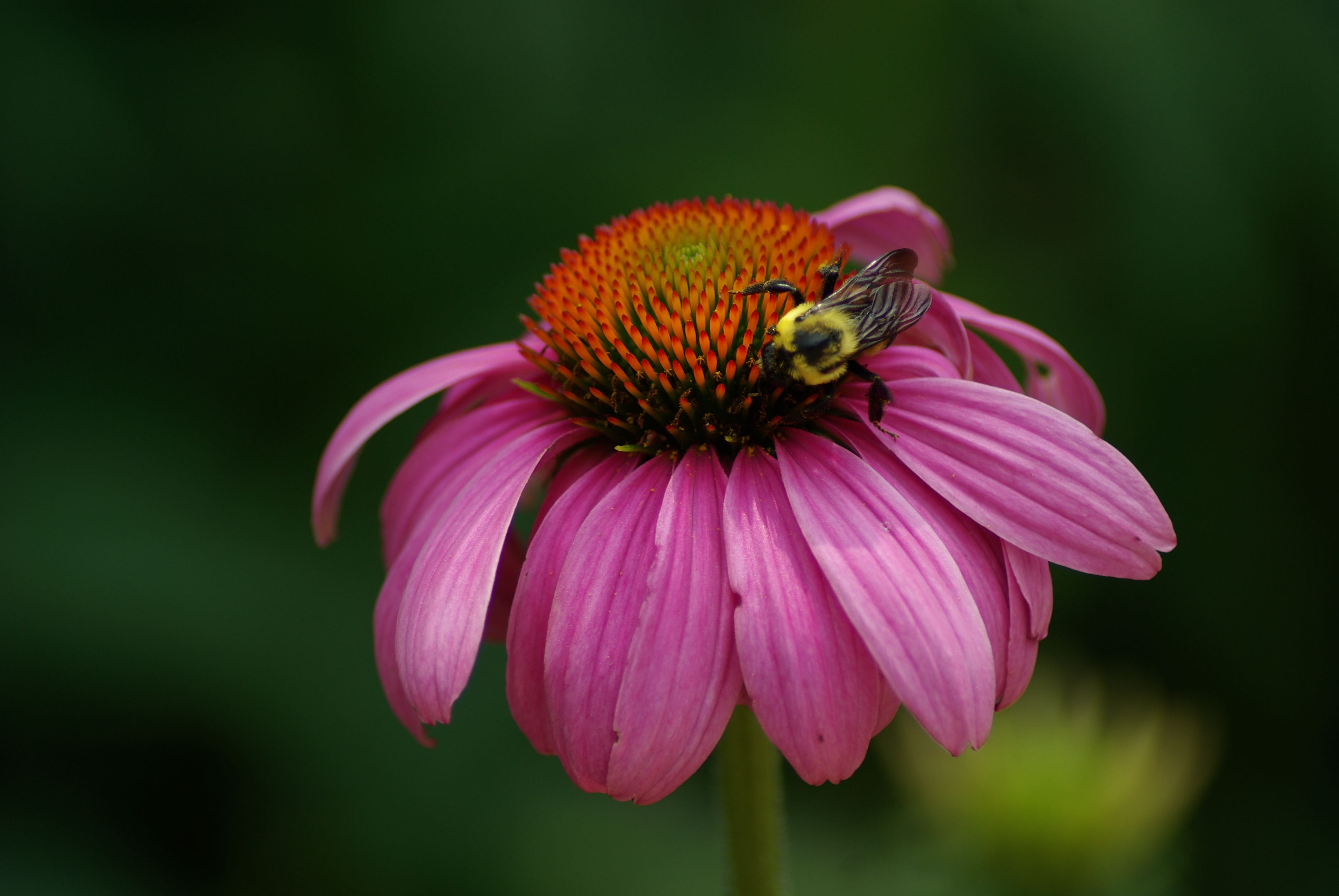 A bee pollinating an unidentified species of purple coneflower (Echinacea) at the Smithsonian National Zoological Park in Washington.